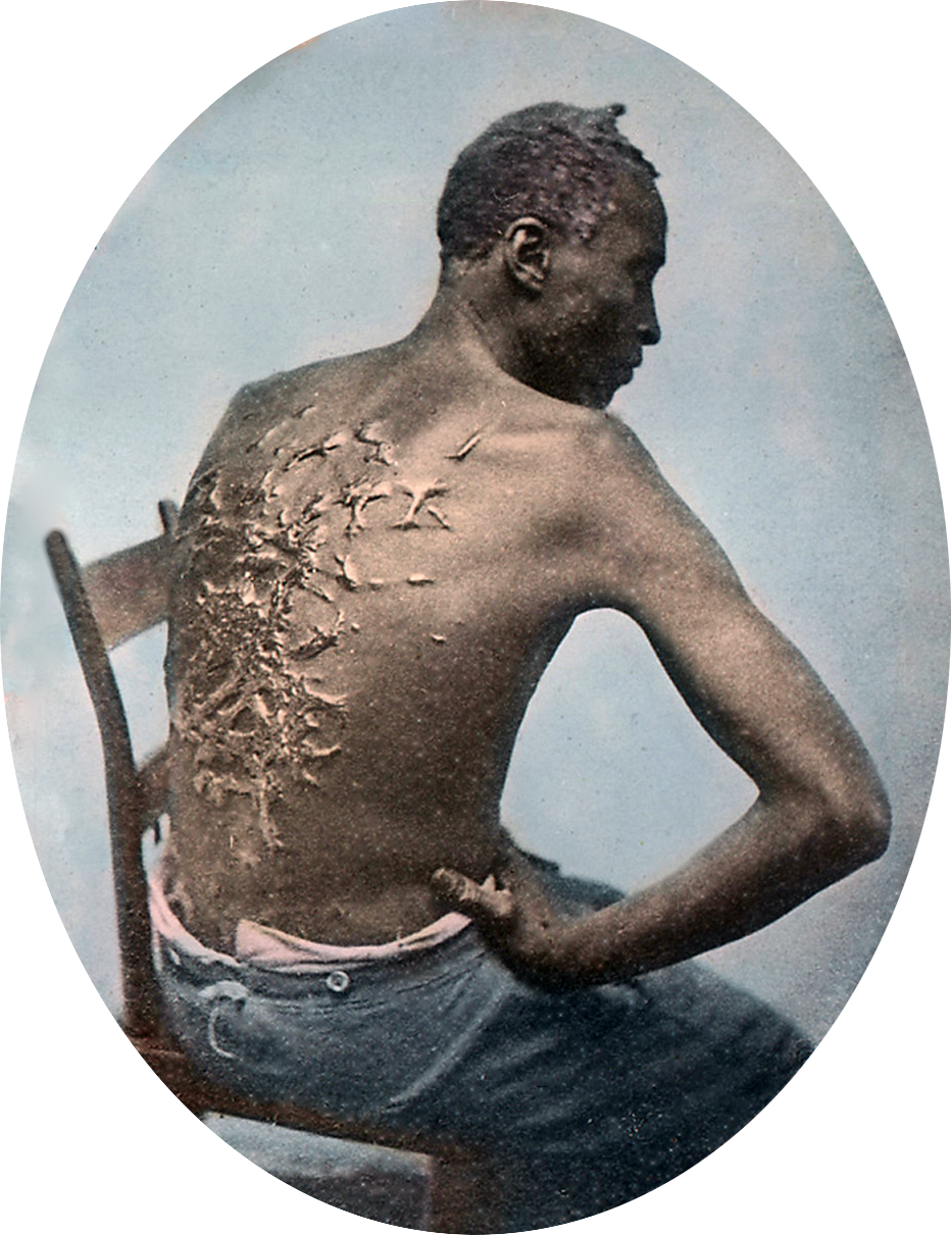 Colored glass slide of Gordon (slave) during medical examination at a Union camp in Baton Rouge. On the verso of the mount were the comments of S. K. Towle, Surgeon, 30th Regiment, Massachusetts Volunteers: “…Few sensation writers ever depicted worse punishments than this man must have received, though nothing in his appearance indicates any unusual viciousness—but on the contrary, he seems intelligent and well-behaved.”